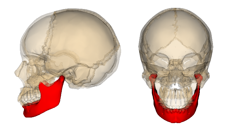 mandible bone. Images are from Anatomography maintained by Life Science Databases(LSDB).